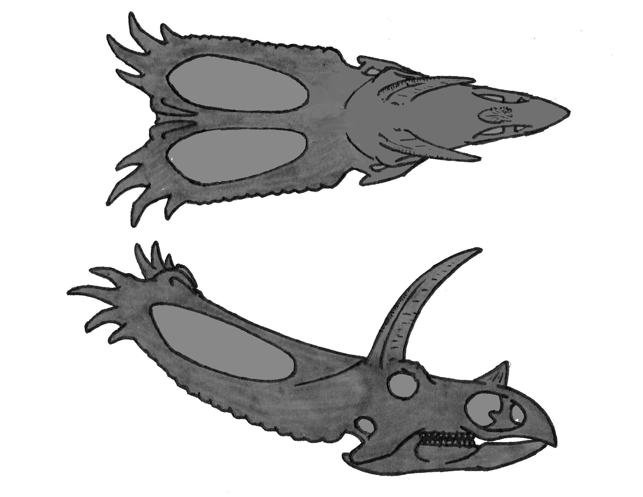 Illustration of the skull from the ceratopsian dinosaur Pentaceratops ( New Mexico, 75 MYA ).